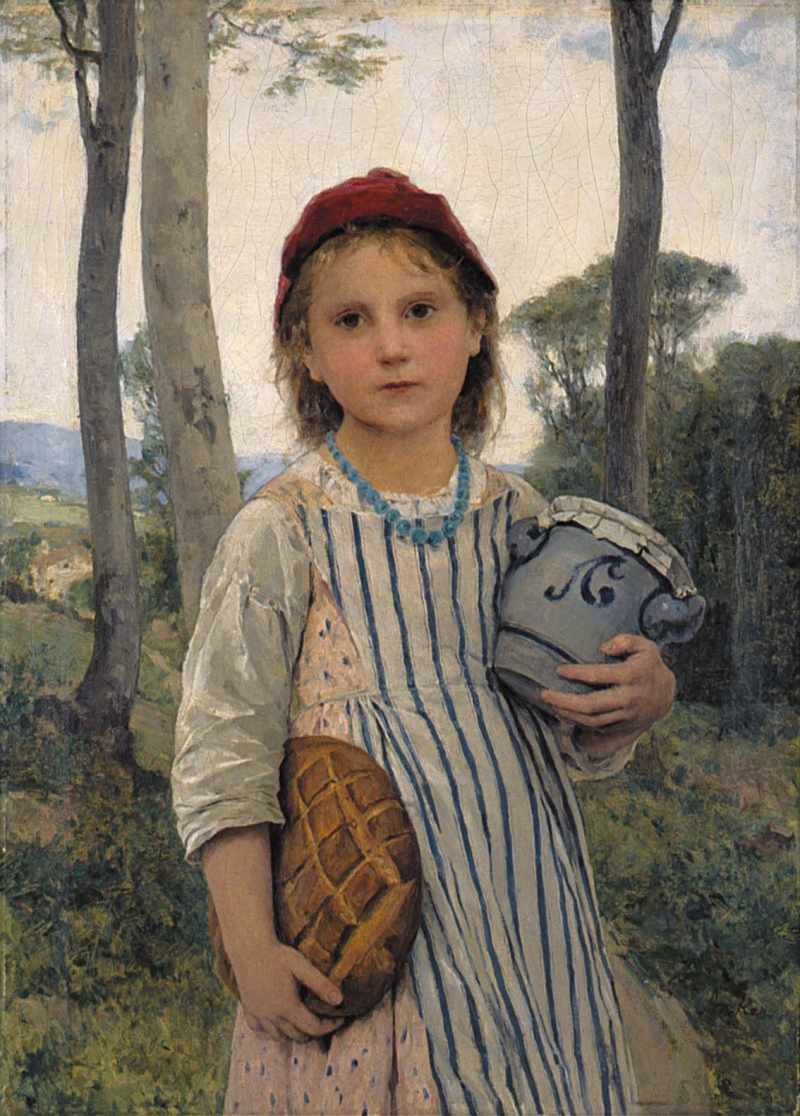 Little Red Riding Hood, 1883, oil on canvas